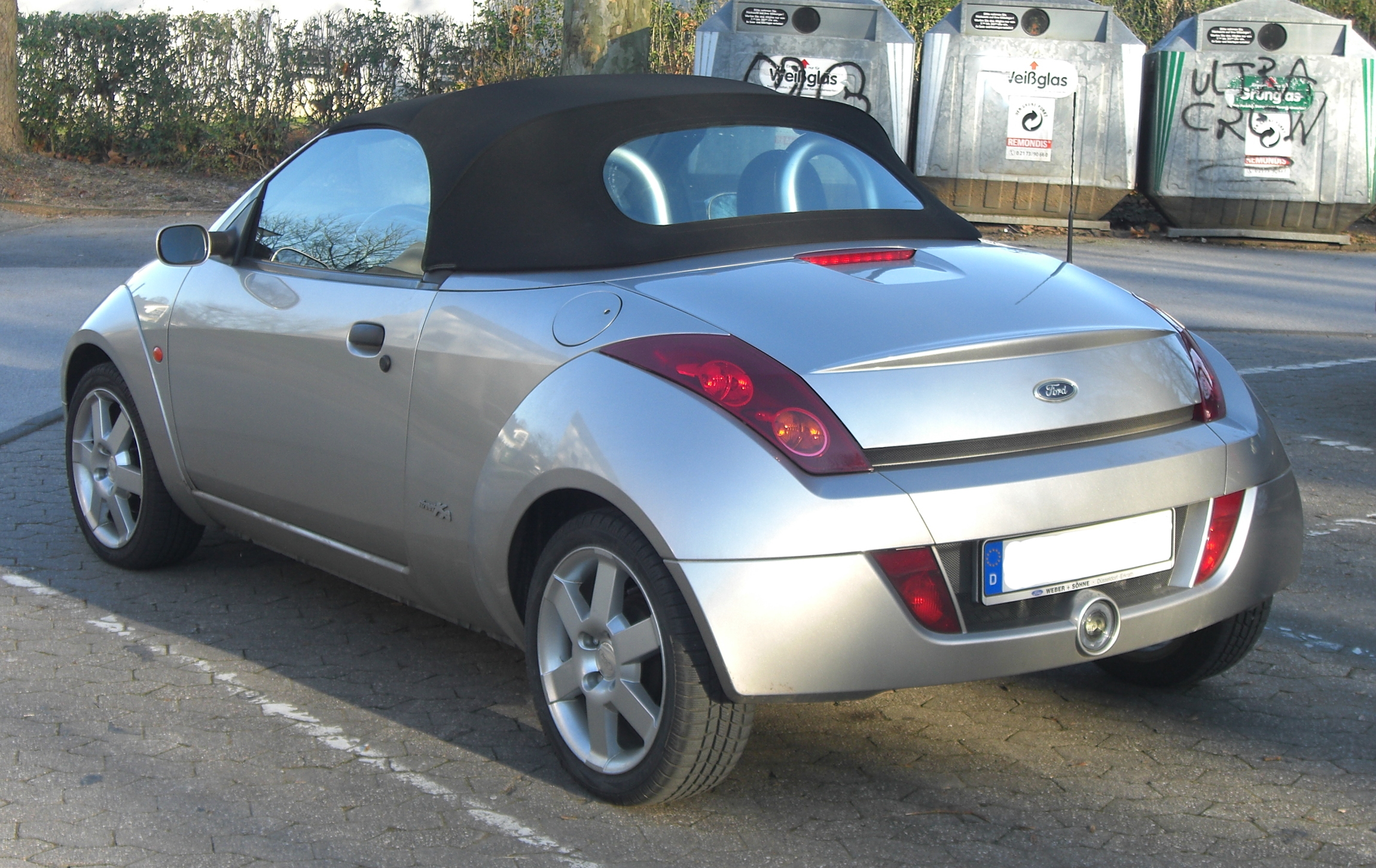 Description: Ford StreetKa Source: Matthias Other Version(s)